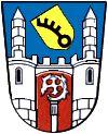 Old coat of arms of Burghagel inBachhagel, Dillingen, Swabia, Bavaria, Germany.